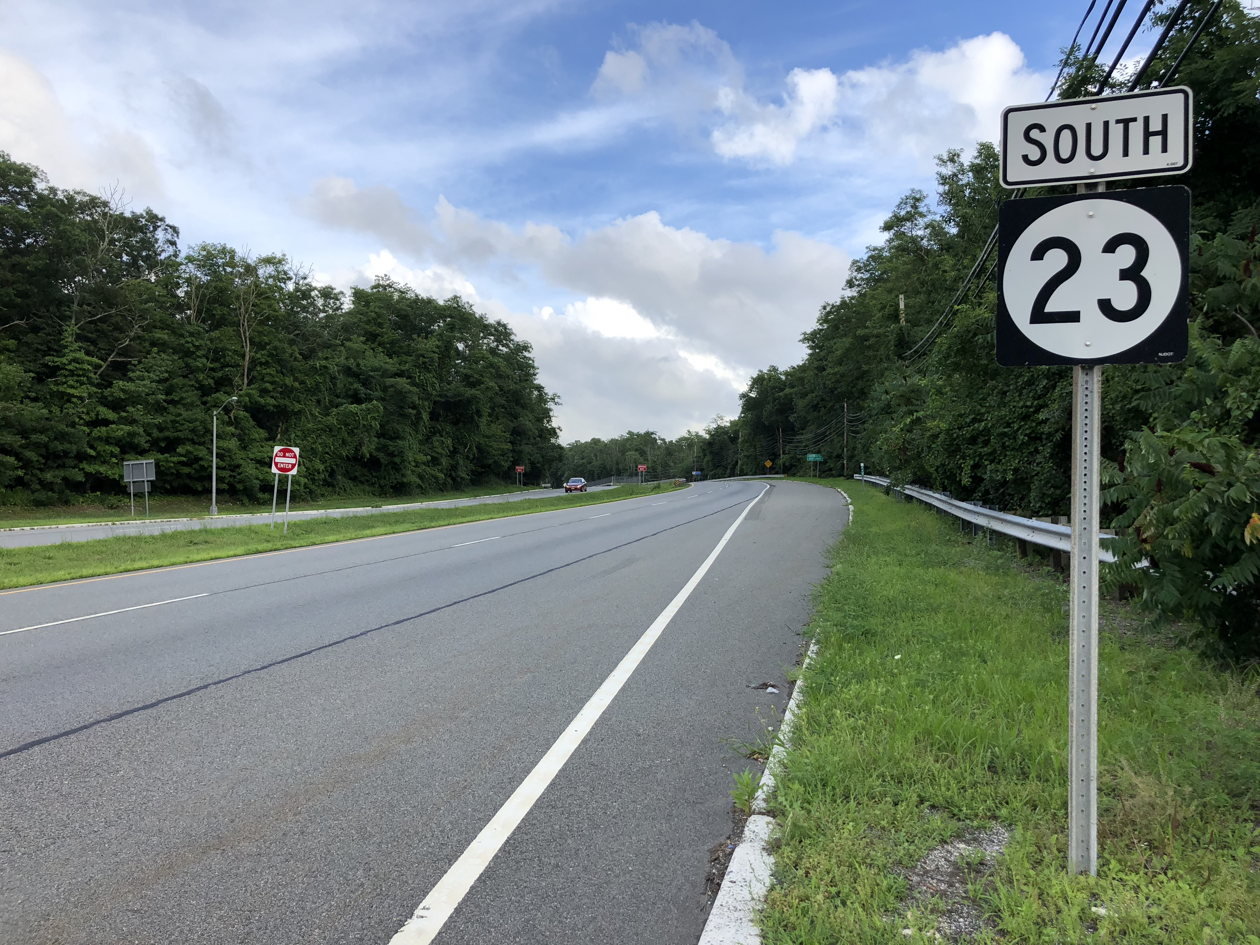 View south along New Jersey State Route 23 at Reservoir Road in West Milford Township, Passaic County, New Jersey